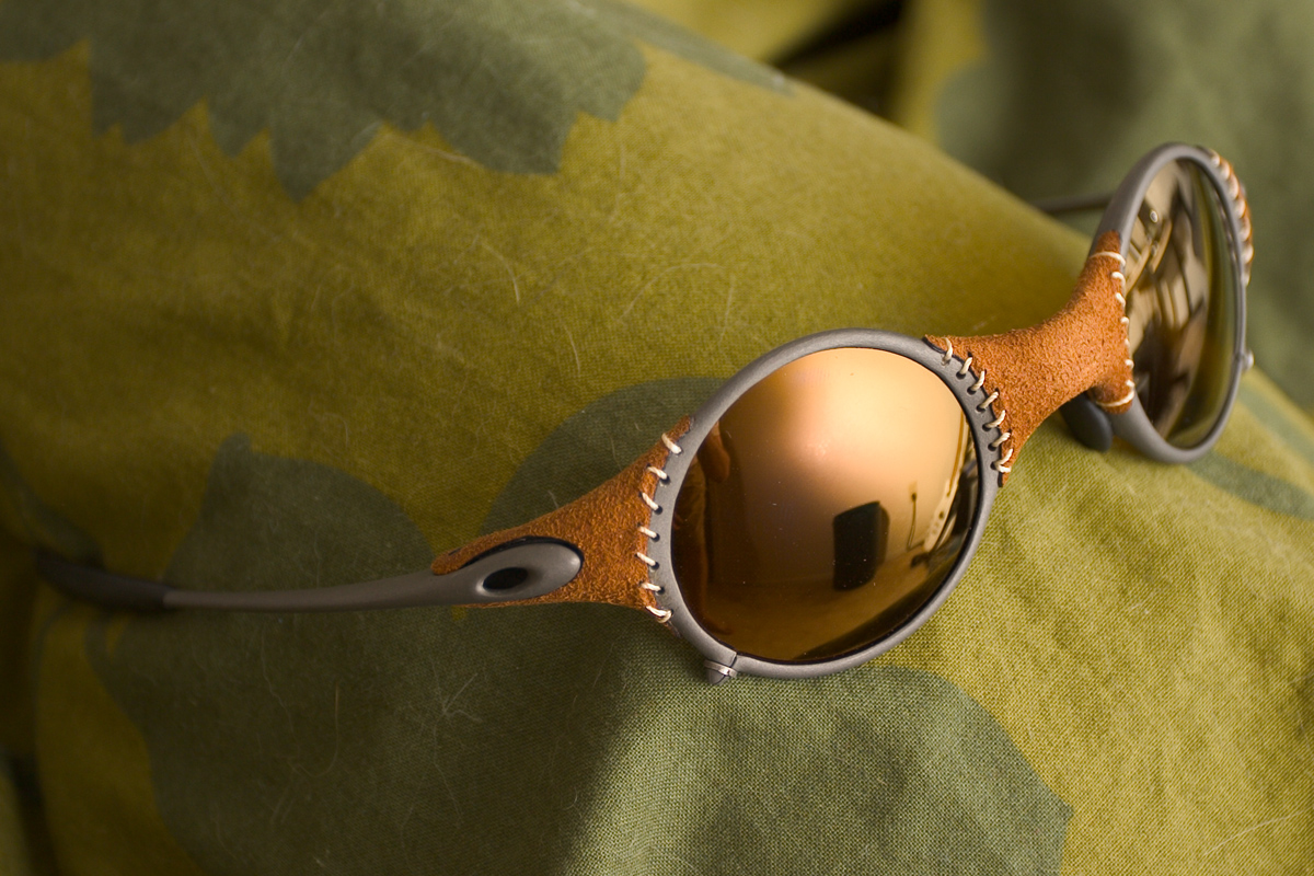 Oakley X-Metal Mars with leather accents and Gold Iridium lenses.